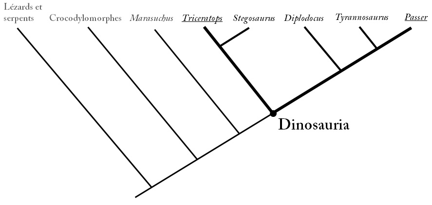 Cladogram showing the definition of the clade Dinosauria